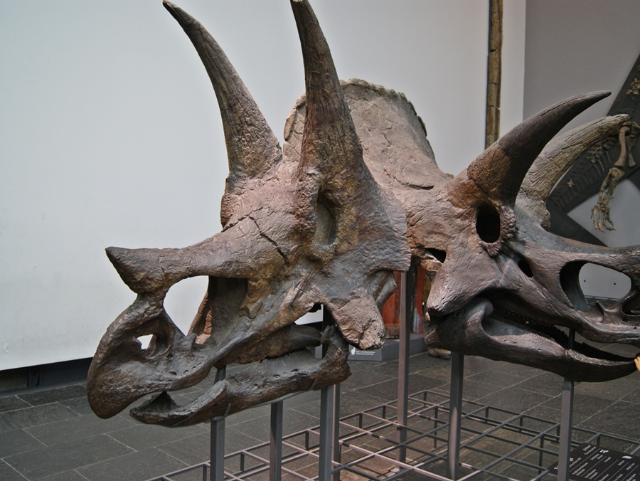 Triceratops sp. Senckenberg Museum Frankfurt